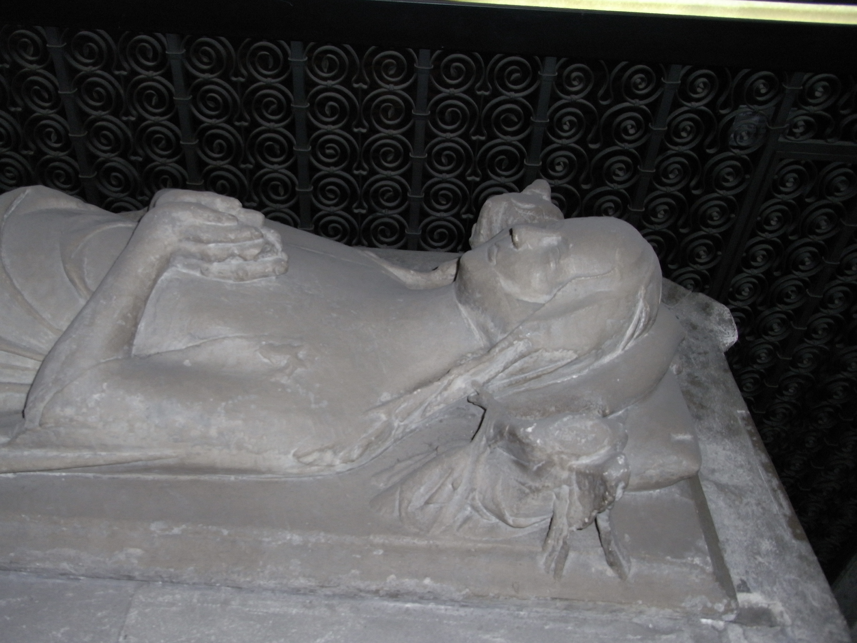 Effigy of Margaret Mortimer, Baroness Berkeley(d.1337) at right hand side of effigy of her son Maurice de Berkeley, Baron Berkeley(d.1368), Lady Chapel, St Augustine's Abbey, Bristol (Bristol Cathedral). Identities according to modern brass plaque in situ.